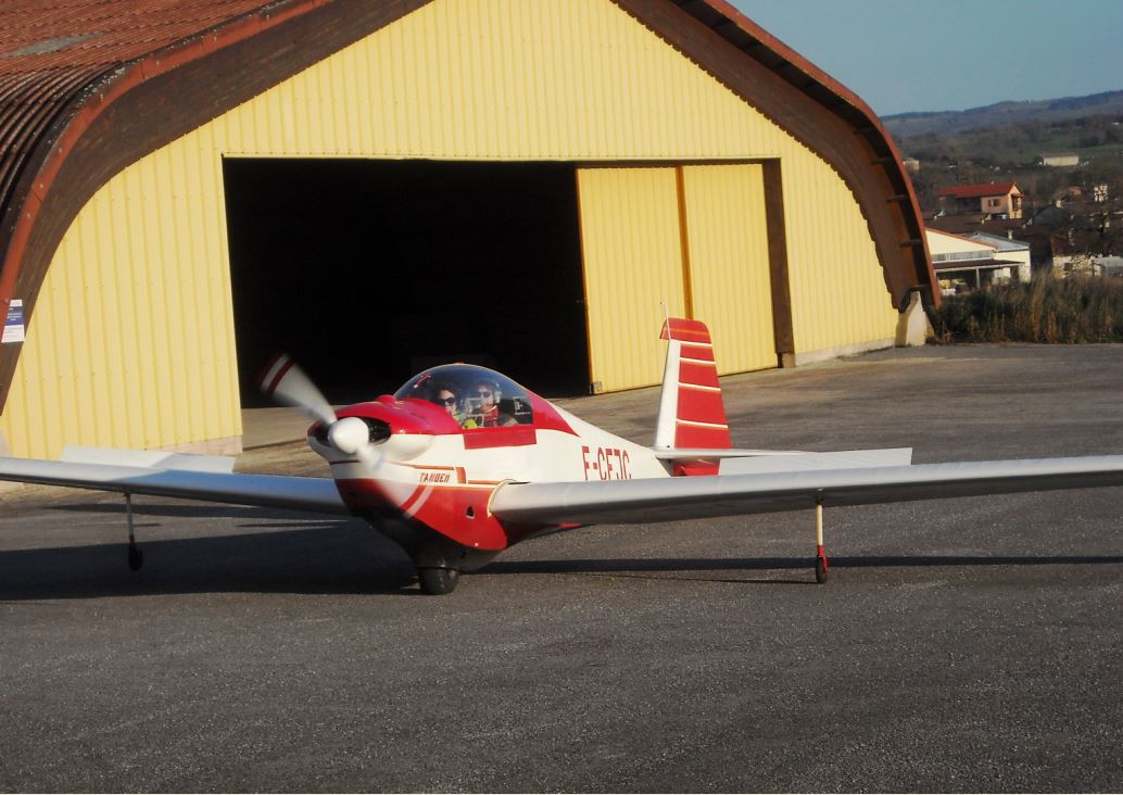 Saint-Affrique airfield.